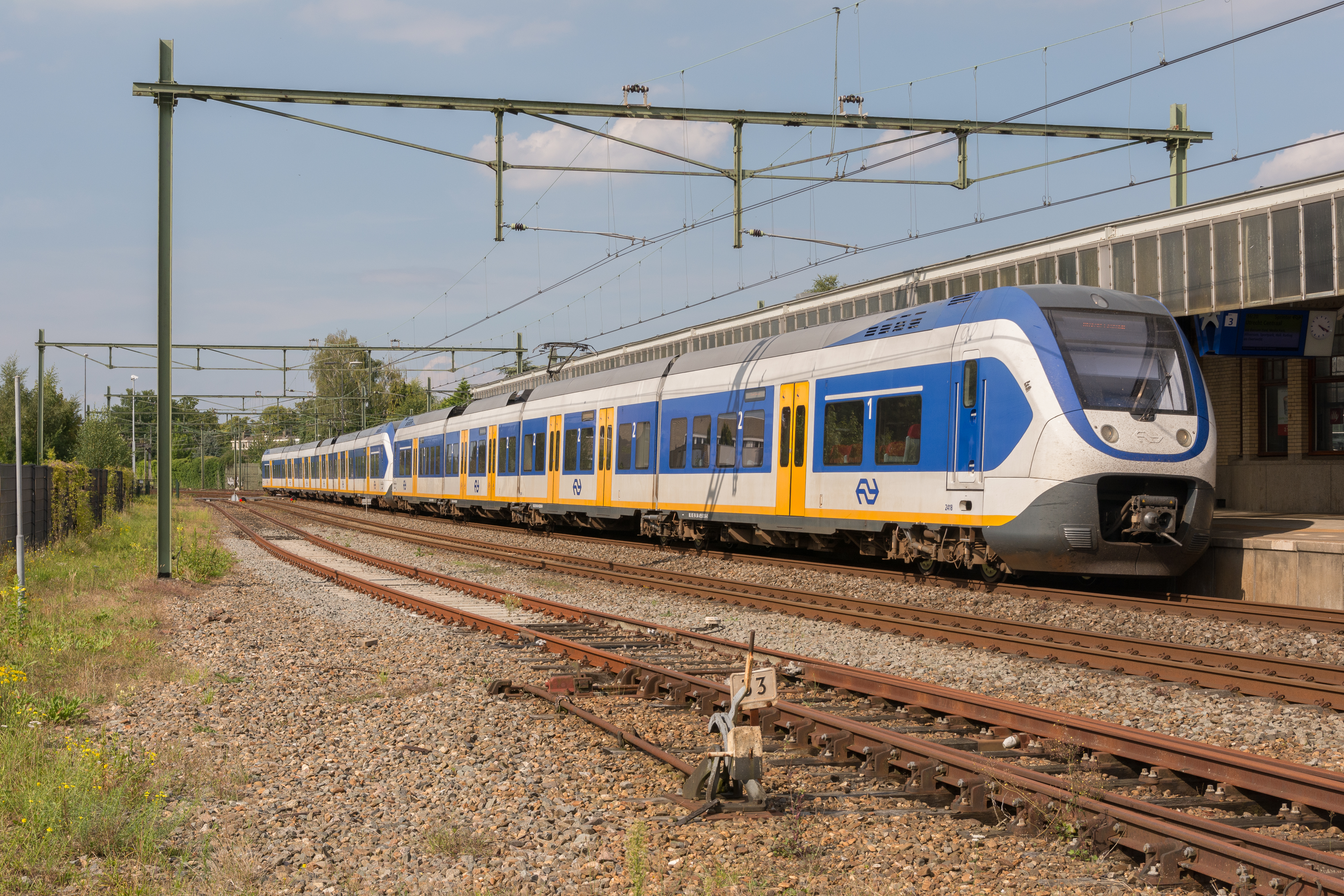 SLT units 2418 and 2640 as local train 5757 to Utrecht, waiting at Naarden-Bussum station.